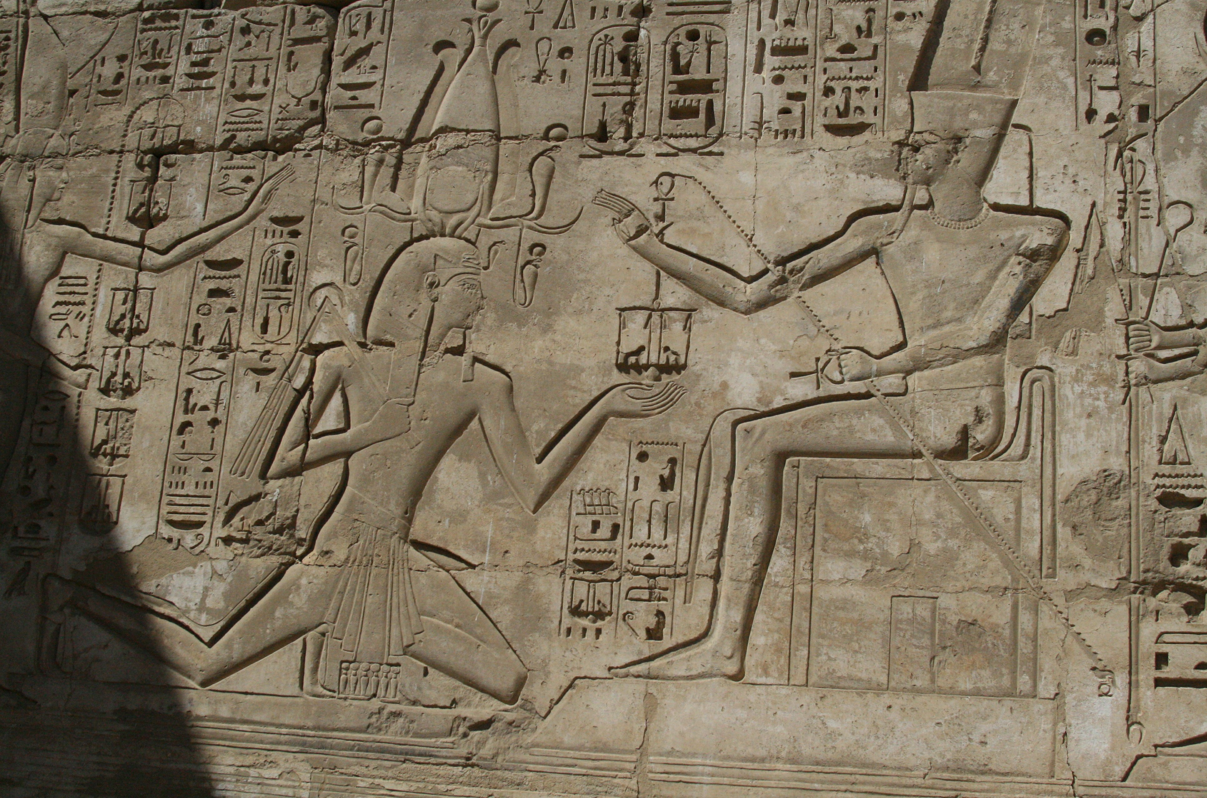 Medinet HAbu - Mortuary Temple of RAmeses III